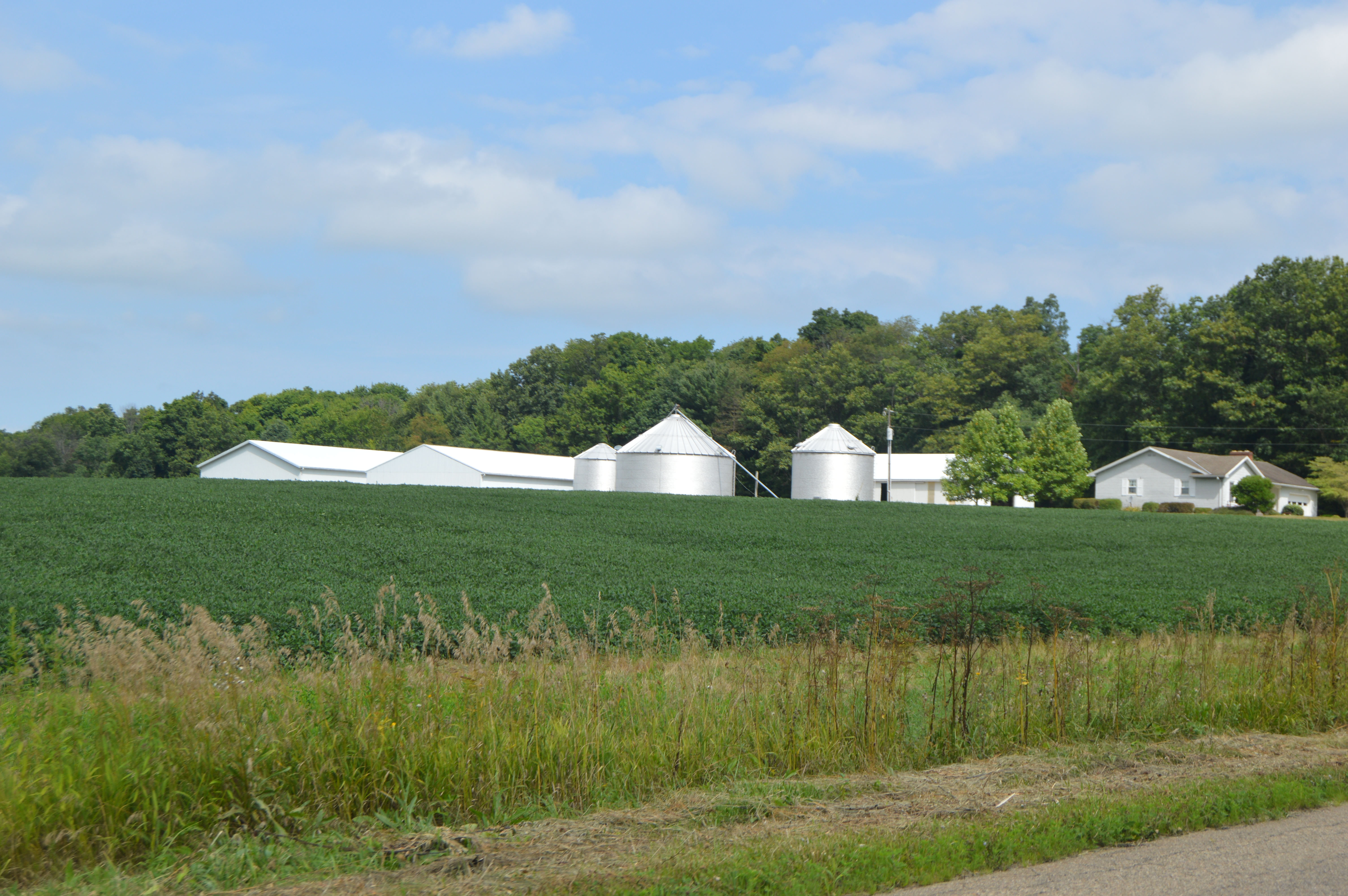 Soybean fields on the western side of Grove Church Road, north of Martinsburg, in southwestern Harrison Township, Knox County, Ohio, United States.